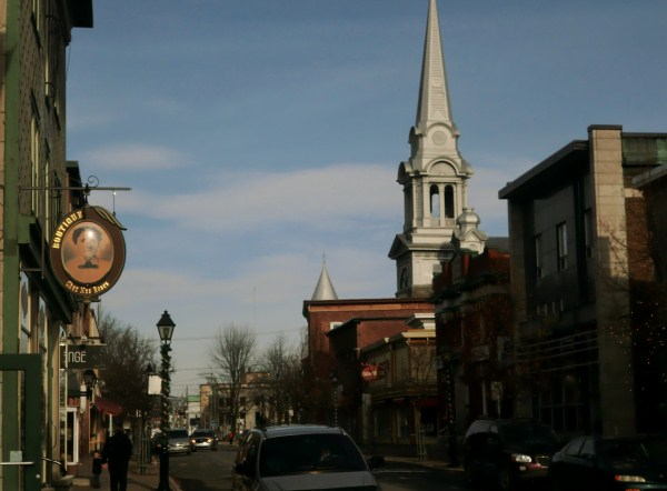 rue Notre-Dame, Thetford Mines, Quebec